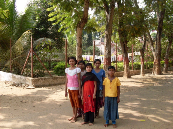 Students of Lok Biradari Prakalp Ashram School